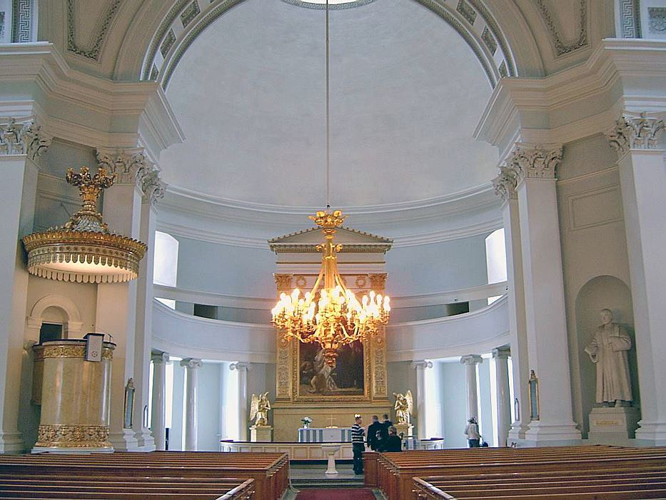 Interior of Helsinki Lutheran Cathedral in Helsinki, Finland.